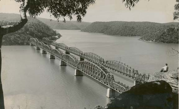 New and Old Hawkesbury Bridge, Hawkesbury River Dated: No date Digital ID: 12932-a012-a012X2444000066 Rights: We'd love to hear from you if you use our photos. Many other photos in our collection are available to view and browse on our website using Photo Investigator.